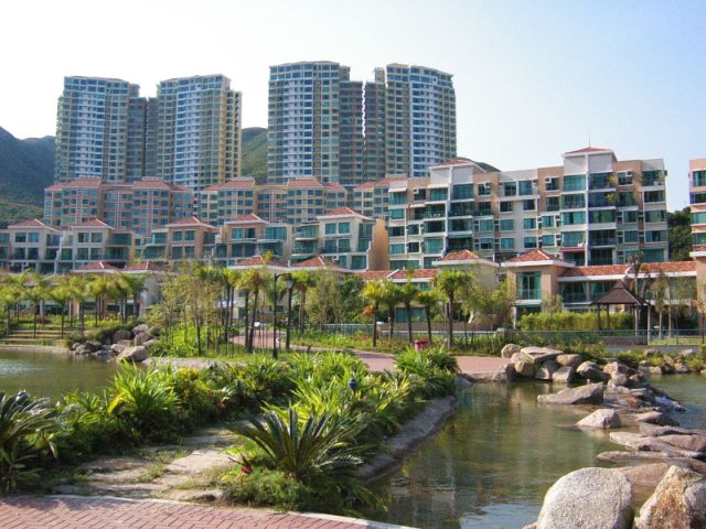 Siena, Discovery Bay.)